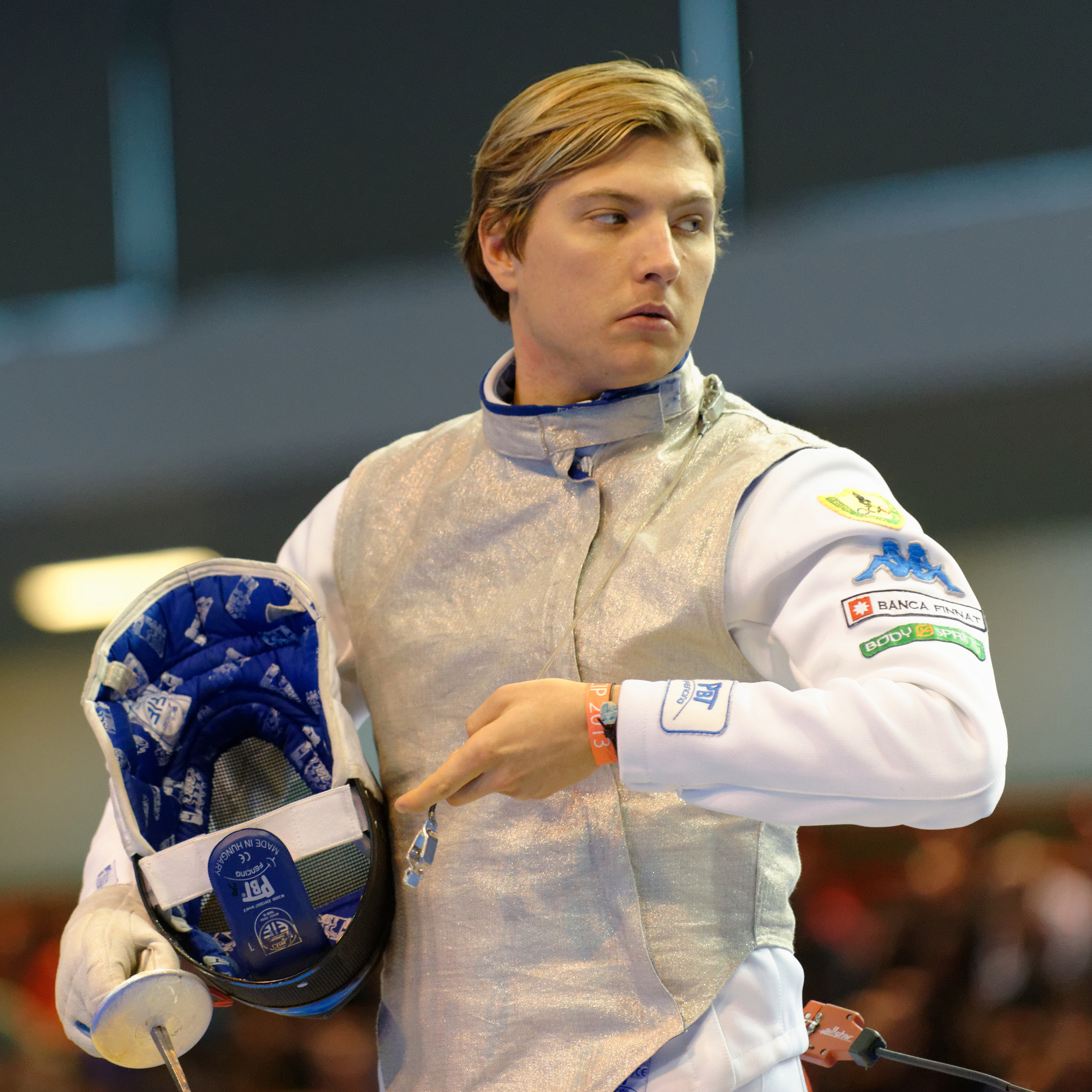 Valerio Aspromonte during T16 at the Challenge international de Paris 2013 against Artem Sedov.